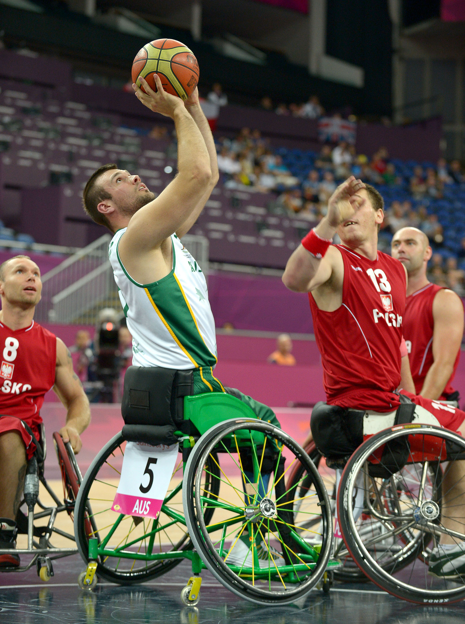 Photograph of Australian Paralympic team member Bill Latham at the 2012 Summer Paralympic Games in London